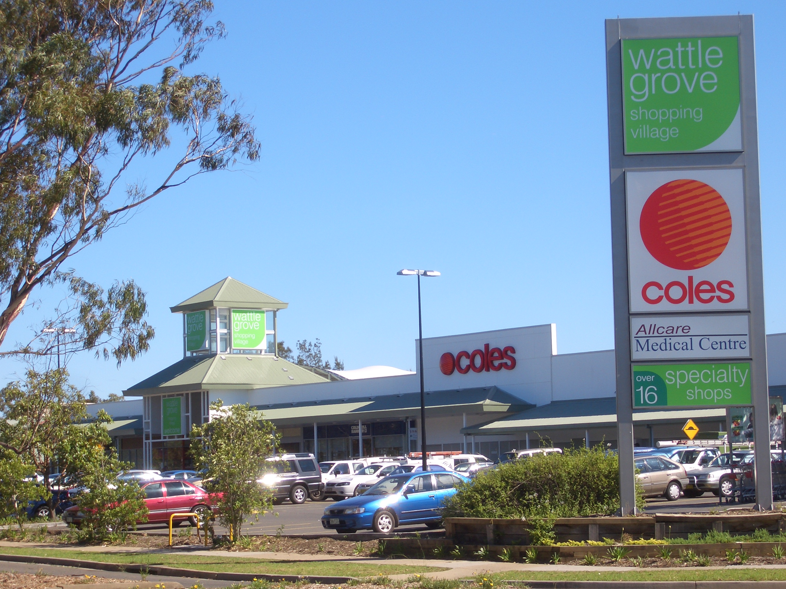 Wattle Grove Shopping Centre